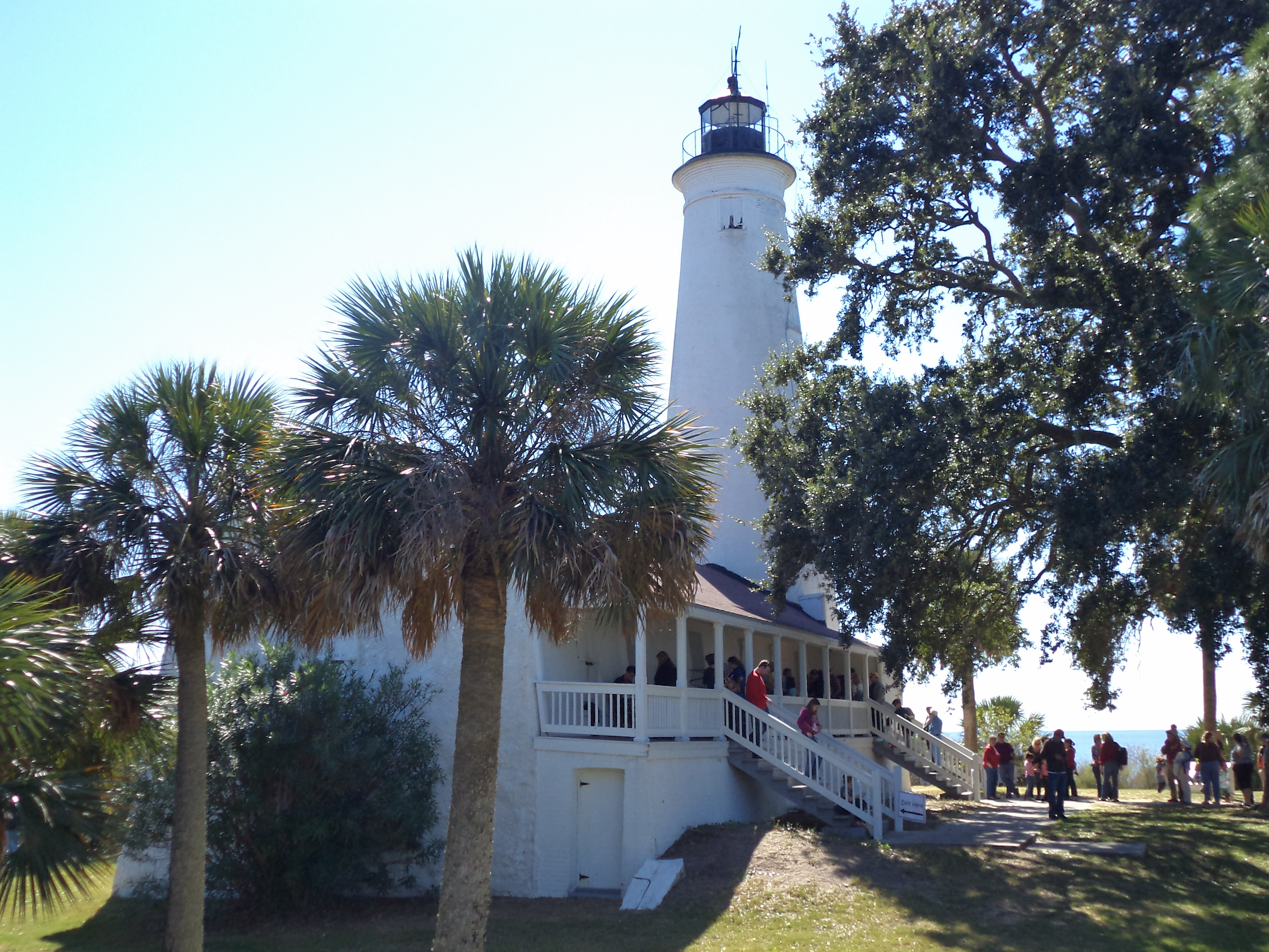 St. Marks Light Lighthouse at St Marks National Wildlife Refuge in Wakulla County, Florida